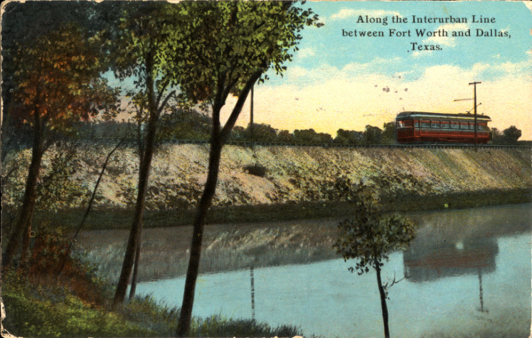 Electric interurban railway, railroad, lake